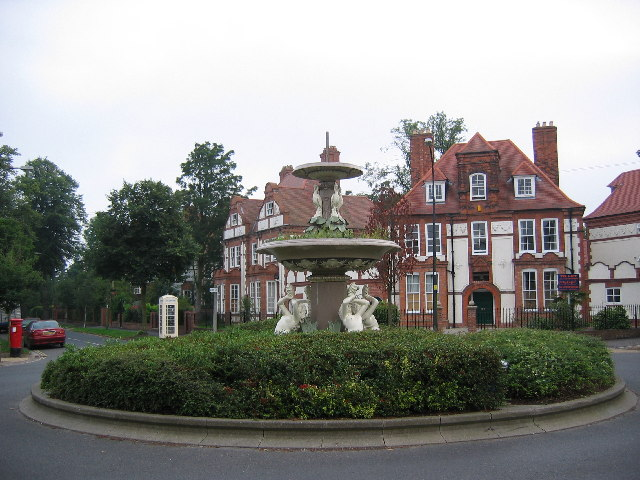 Park Avenue, Hull. View across Park Avenue towards Salisbury Street. This is a typical view Of the grand houses In the 'Avenues' area.